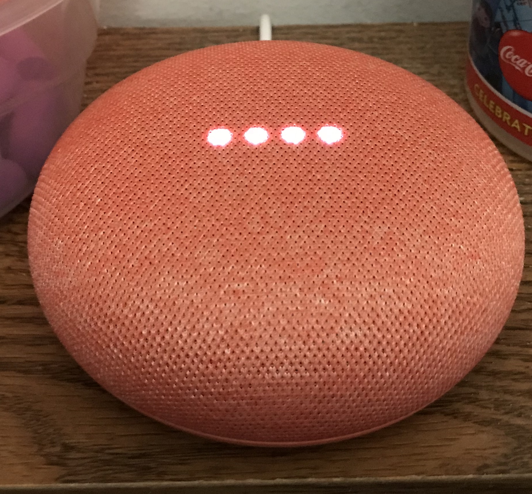 An image of the coral (red) version of the Google Home Mini, a smaller smart speaker based on the Google Home.